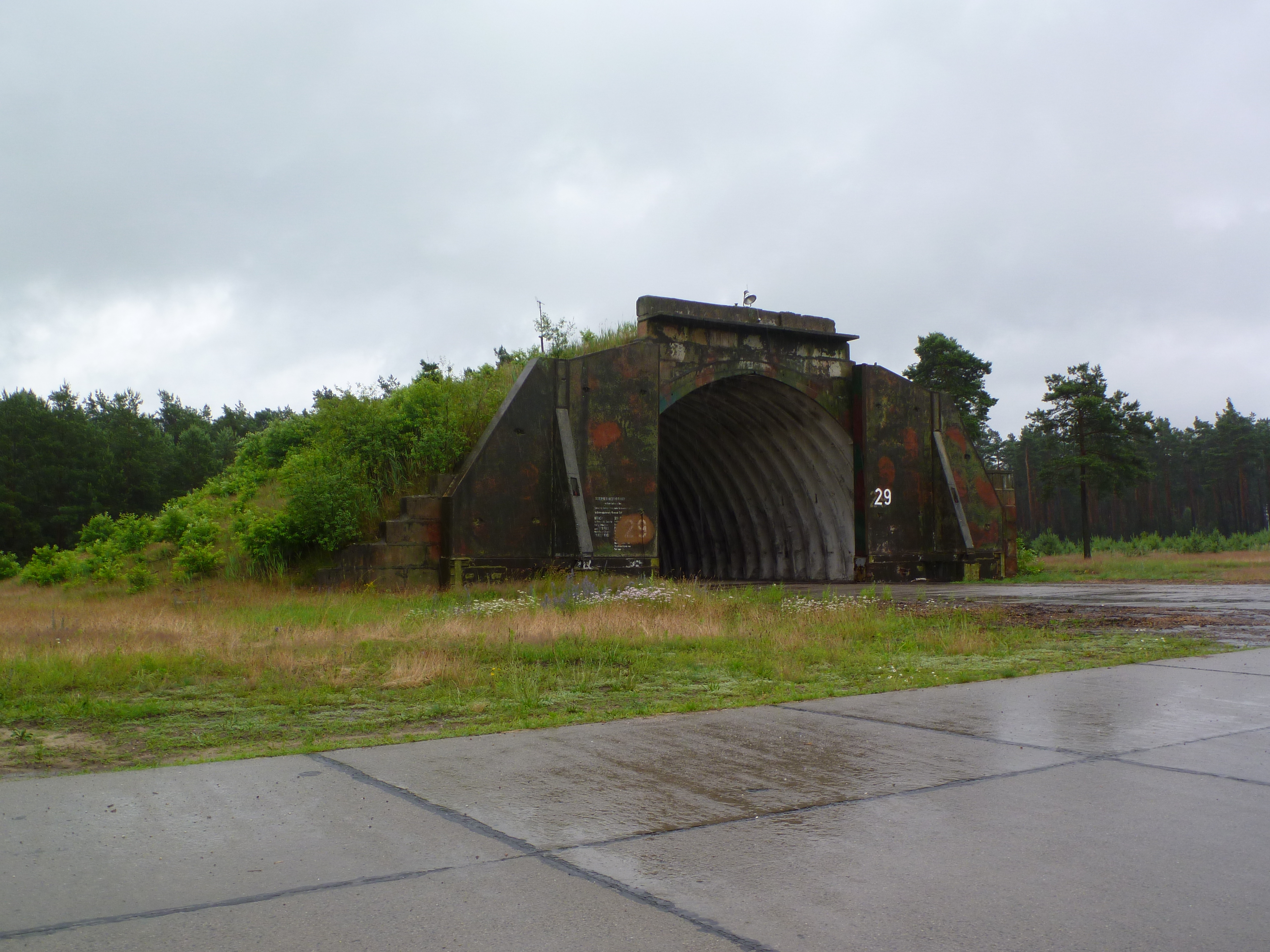 HAS on Airfield Preschen, a former military airport in the southern part of Brandenburg